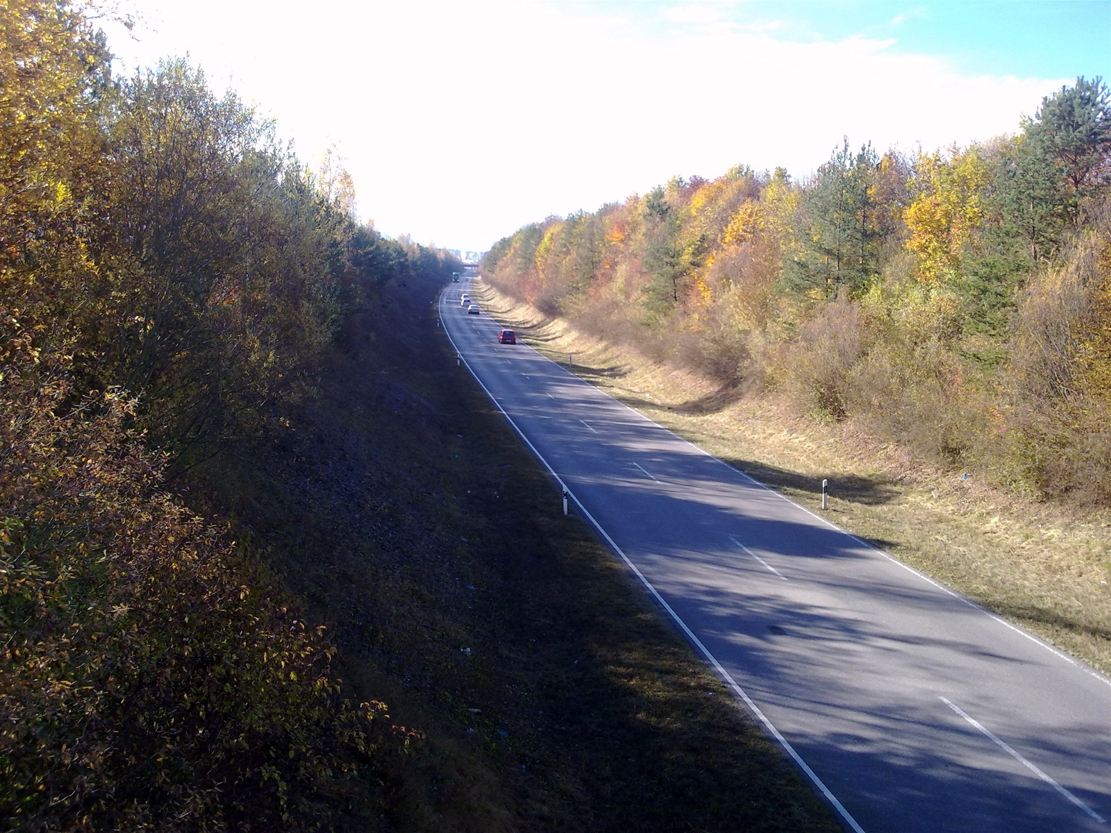 Bundesstraße 17 near Schongau, District of Weilheim-Schongau, Bavaria, Germany